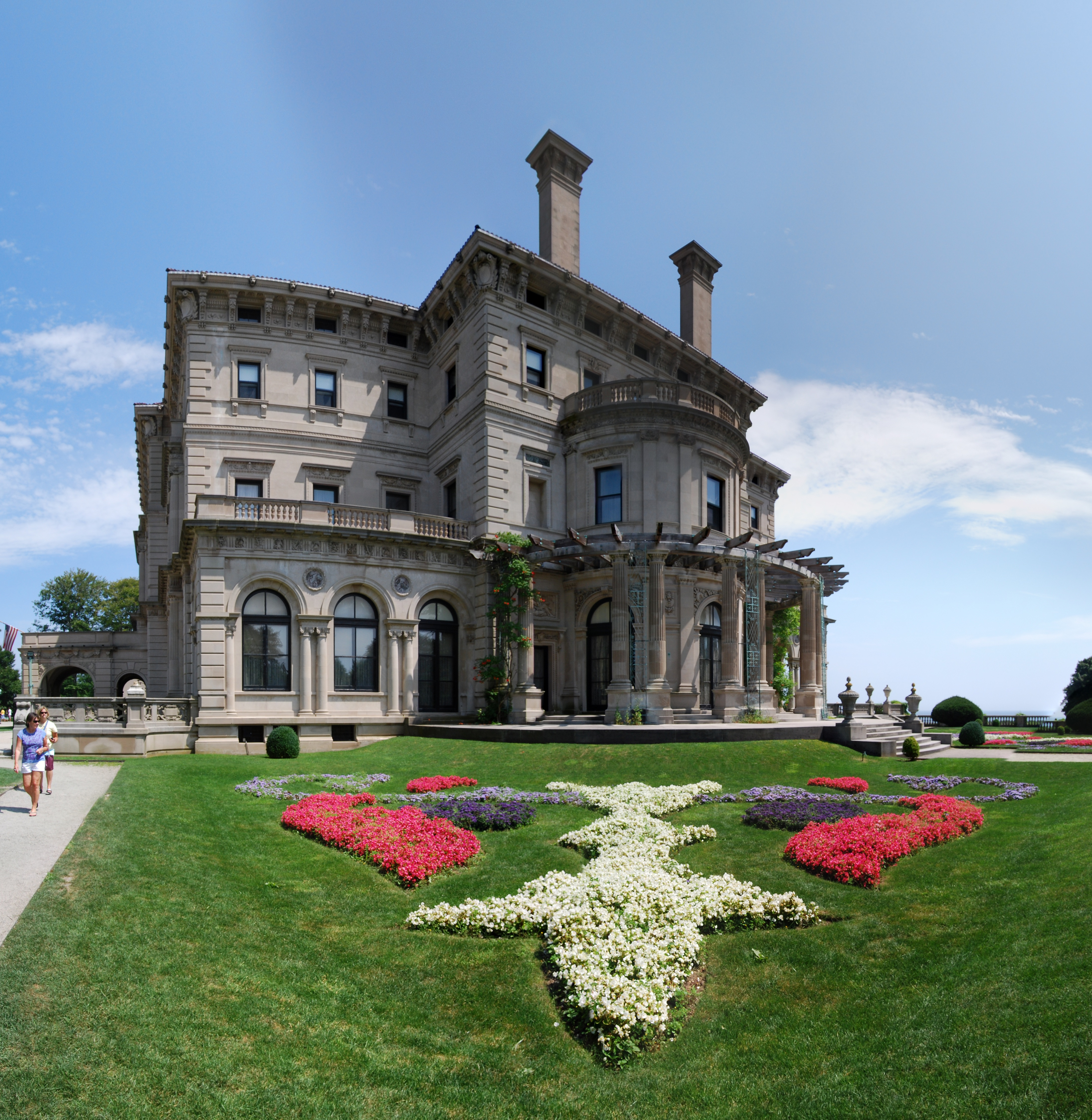 Garden flower beds at The Breakers — in Newport, Rhode Island.